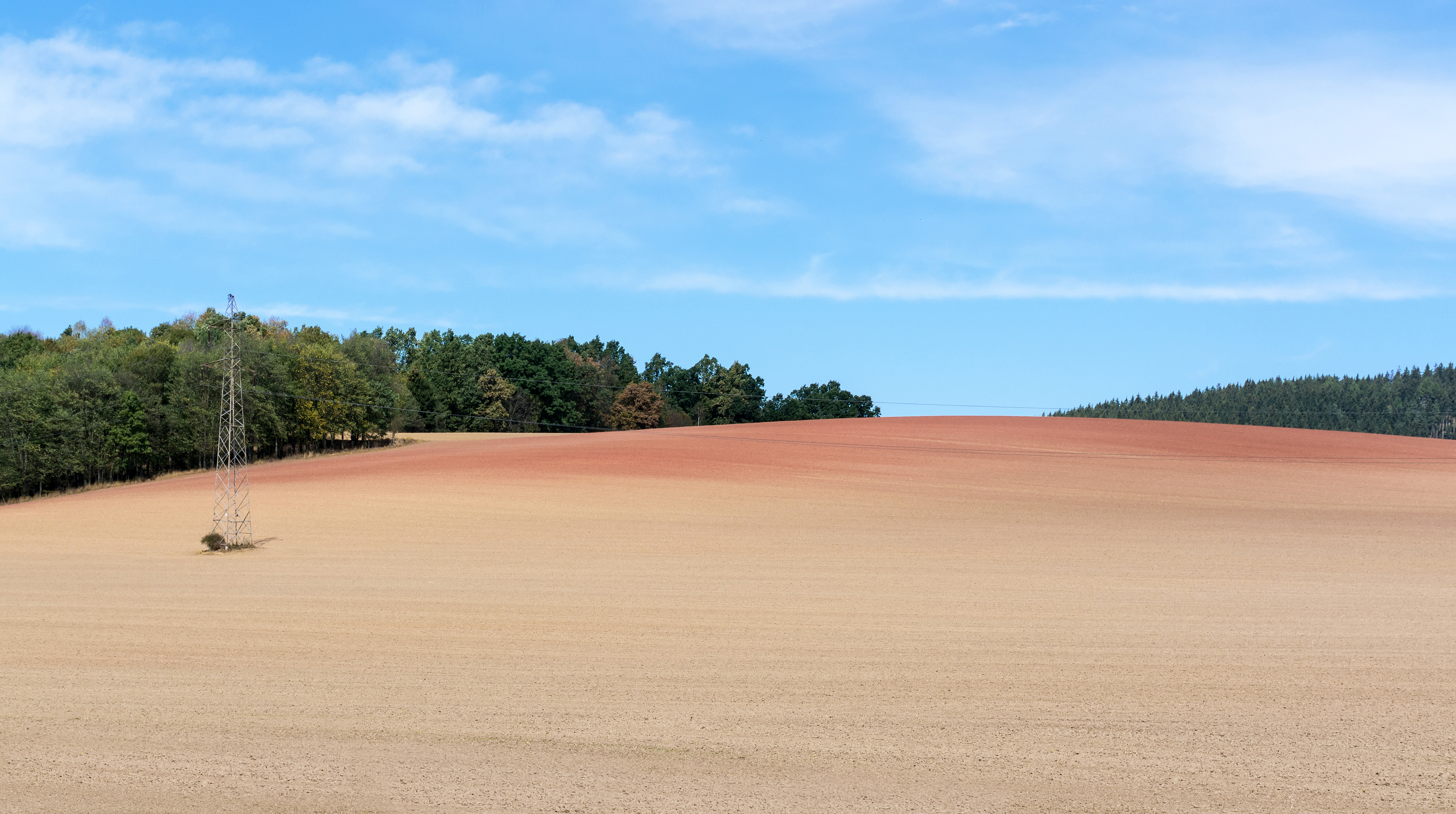 Chmielnik, Włodzickie Hills, Sudetes